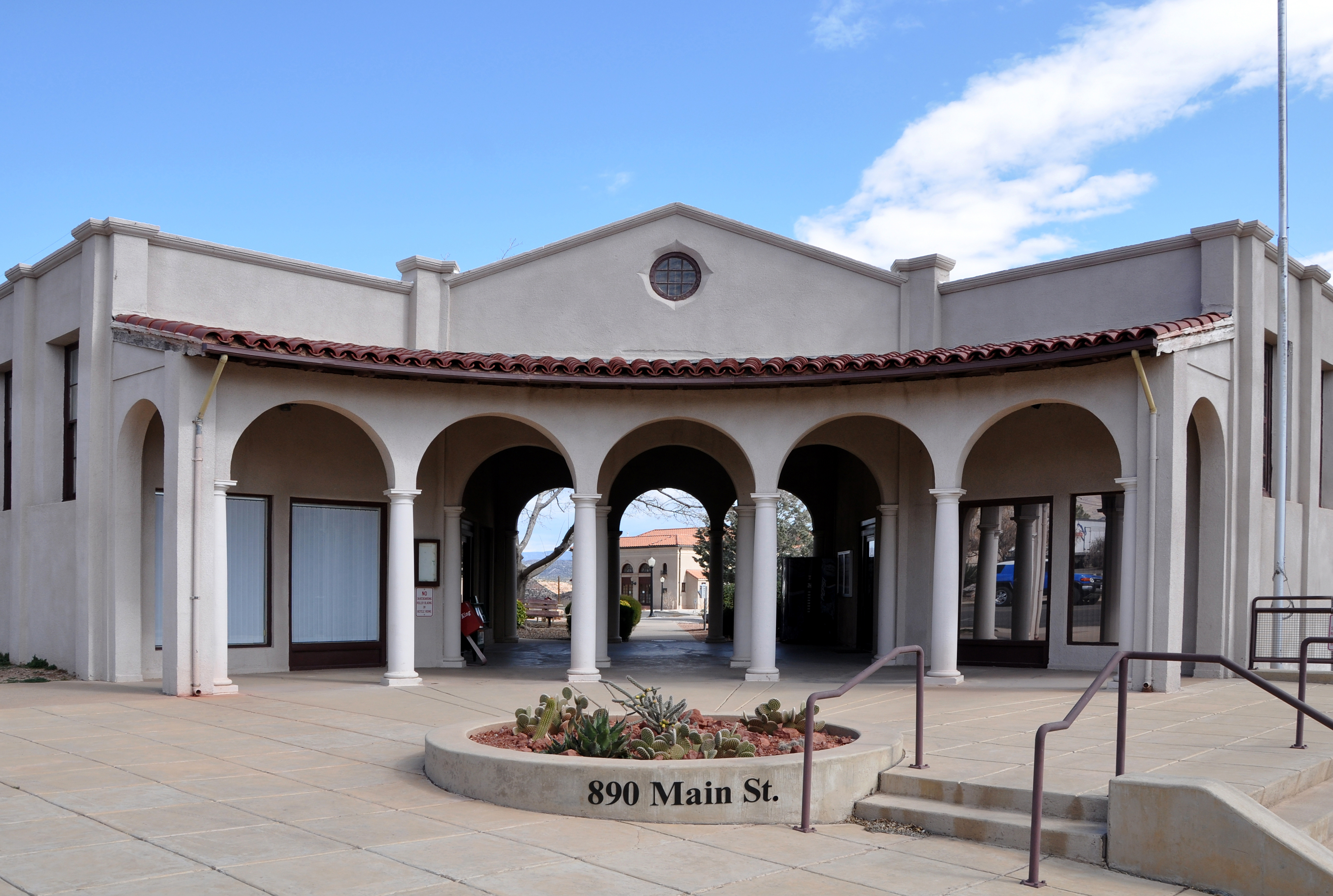 Local government building in Clarkdale — in the Verde Valley, Yavapai County, central Arizona. The Mission Revival style building is contributing property of the Clarkdale Historic District, and on the National Register of Historic Places in Yavapai County.